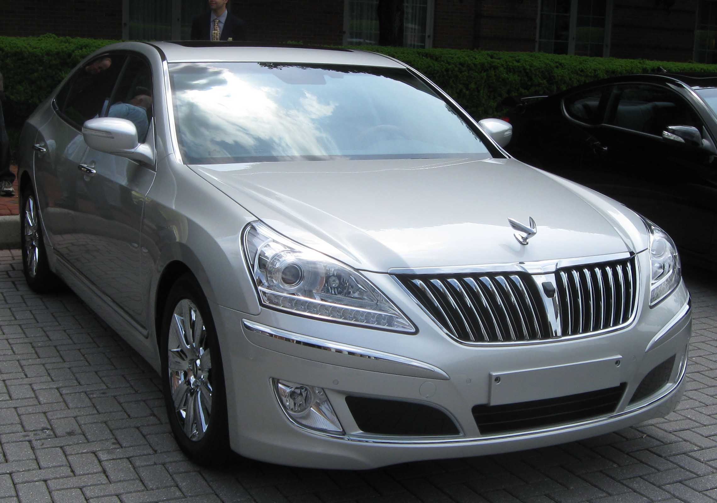 Korean-spec Hyundai Equus photographed in Chantilly, Virginia, USA.